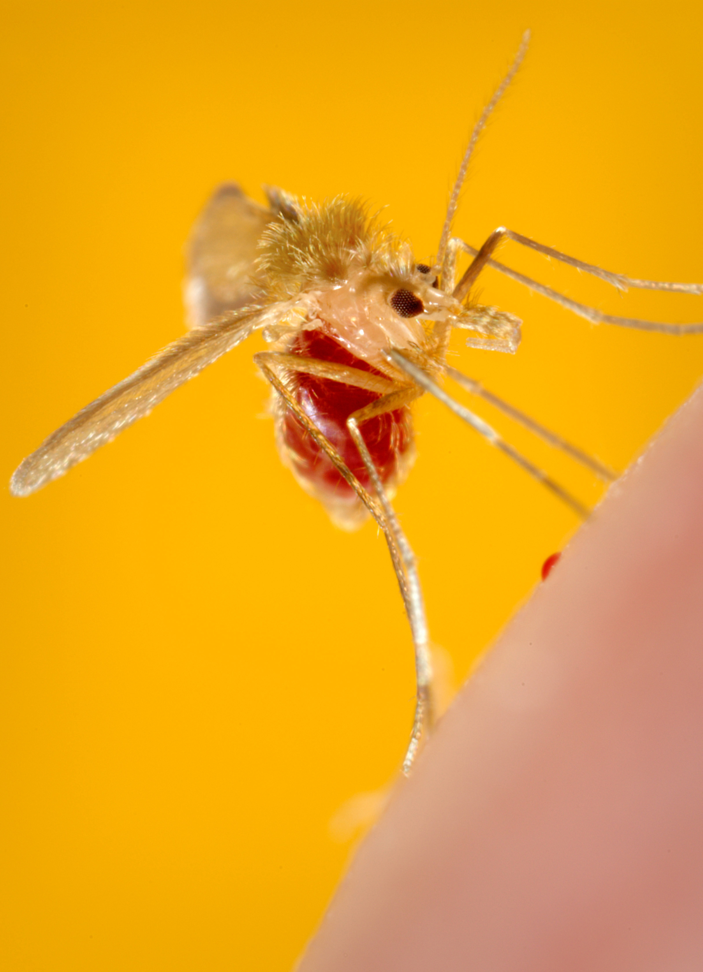 This photograph depicts a Phlebotomus papatasi sandfly, which had landed atop the skin surface of the photographer, who’d volunteered himself as host for this specimen’s blood meal. The sandflies are members of the Dipteran family, Psychodidae, and the subfamily Phlebotominae. This specimen had just completed its ingestion of its bloodmeal, which is visible through its distended transparent abdomen. Sandflies such as this P. papatasi, are responsible for the spread of the vector-borne parasitic disease leishmaniasis, which is caused by the obligate intracellular protozoa of the genus Leishmania.